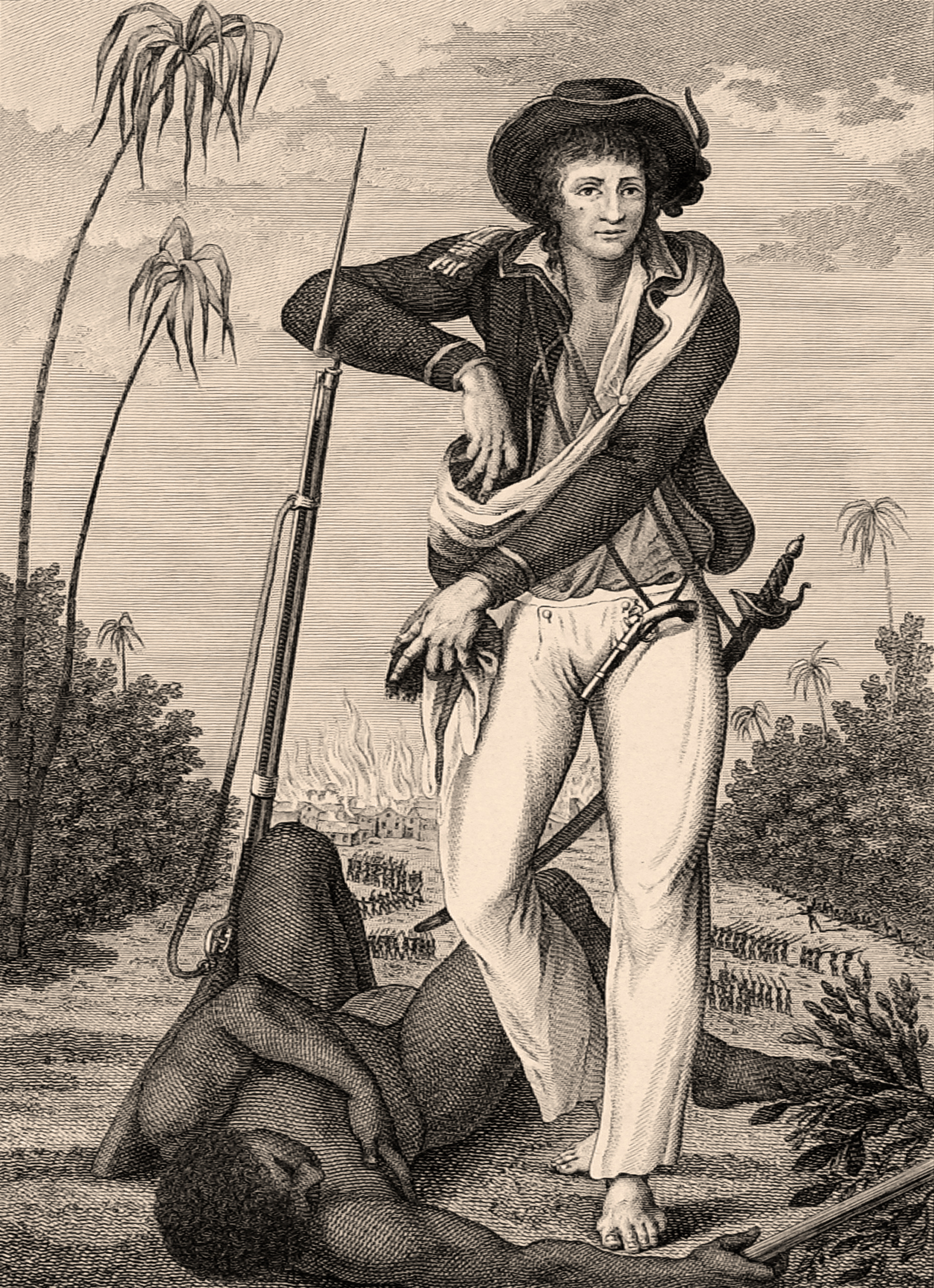 Stedman, J.G., Narrative of a five years' expedition against the revolted negroes of Surinam in Guiana on the Wild Coast of South America from the years 1772 to 1777 : elucidating the history of that country and describing its productions, viz, quadrupedes, birds, reptiles, trees, shrubs, fruits and roots : with an account of the Indians of Guiana and negroes of Guinea, London, 1796.